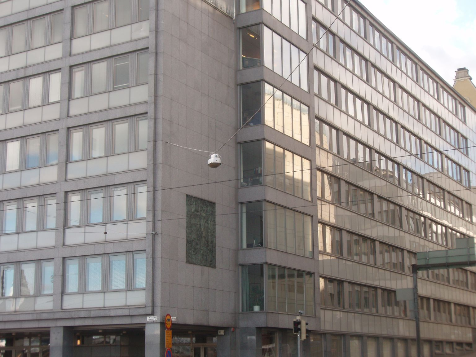 Office building at Eteläranta 8 in Helsinki, originally built for ship owner company FÅA, (later Silja line) in 1955. Design by architect bureau Ola and Ethel Hansson.